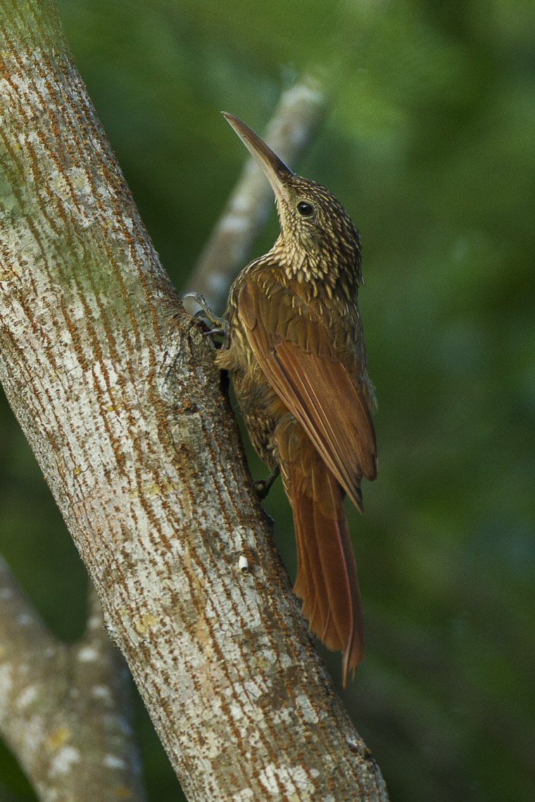 Ivory-billed Woodcreeper - Oaxaca - Mexico_S4E8471